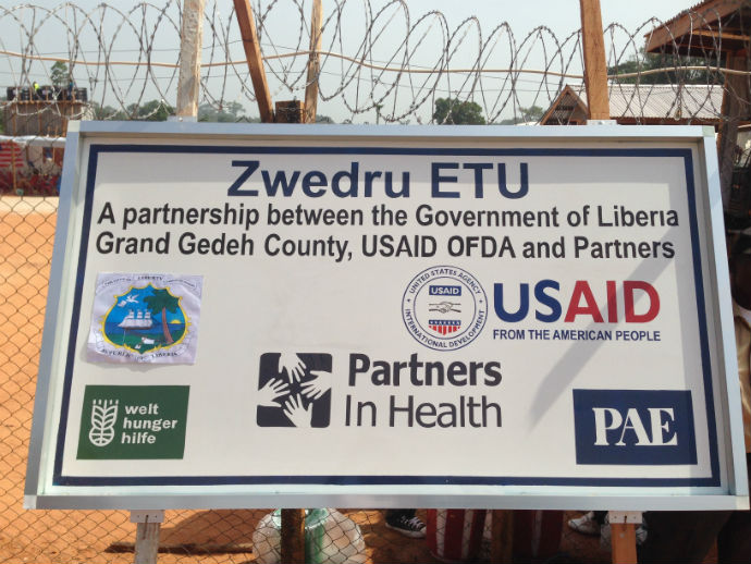 Team effort: USAID is supporting NGO Welthungerhilfe to build the Zwedru ETU; Partners in Health to provide health care; and PAE to manage the facility. / Carol Han, USAID